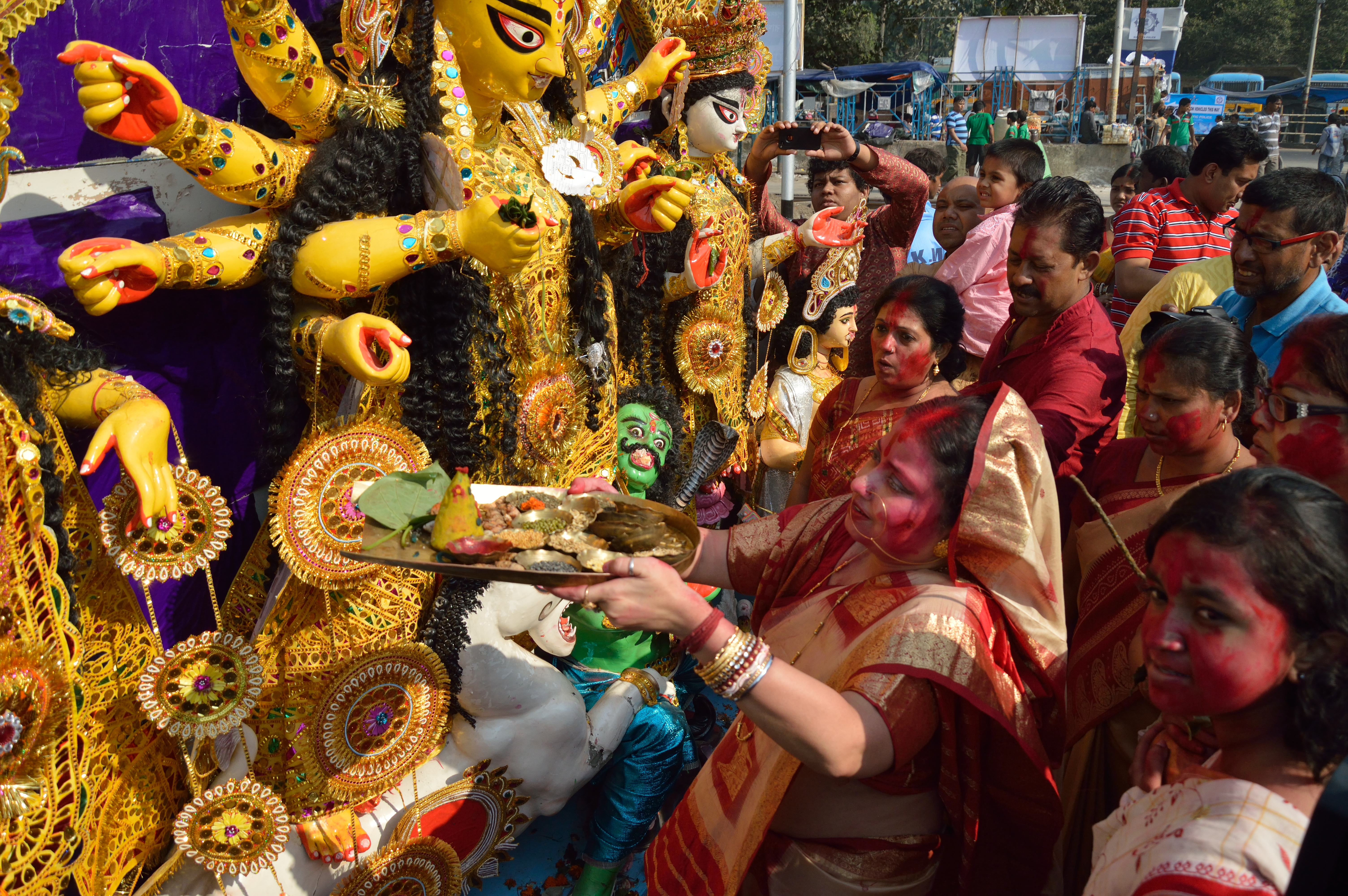 Photograph taken during the Bisarjan or Immersion at the end of Durga puja festival at the Baja Kadamtala Ghat of river Hooghli in Kolkata.